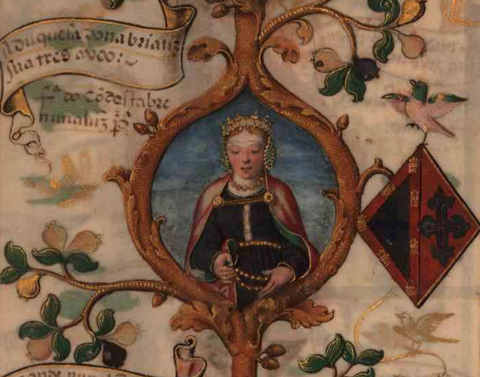 D. Beatriz Pereira de Alvim (1380-1412), daughter of Nuno Álvares Pereira (Saint Nuno of Saint Mary).